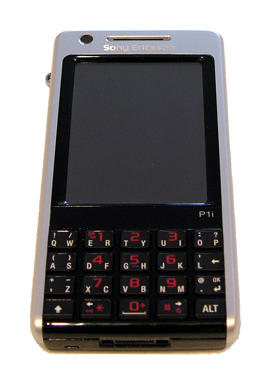 Sony Ericsson P1i